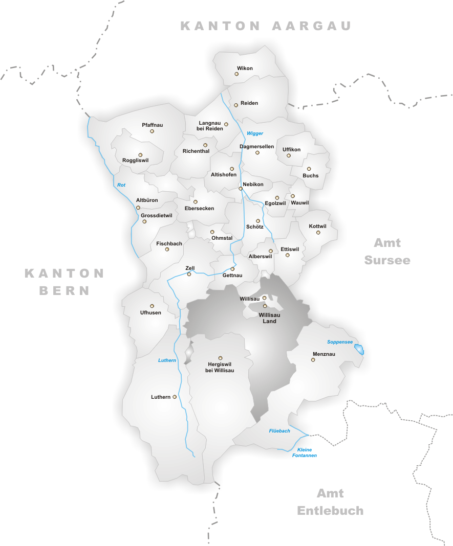 Municipality Willisau Land